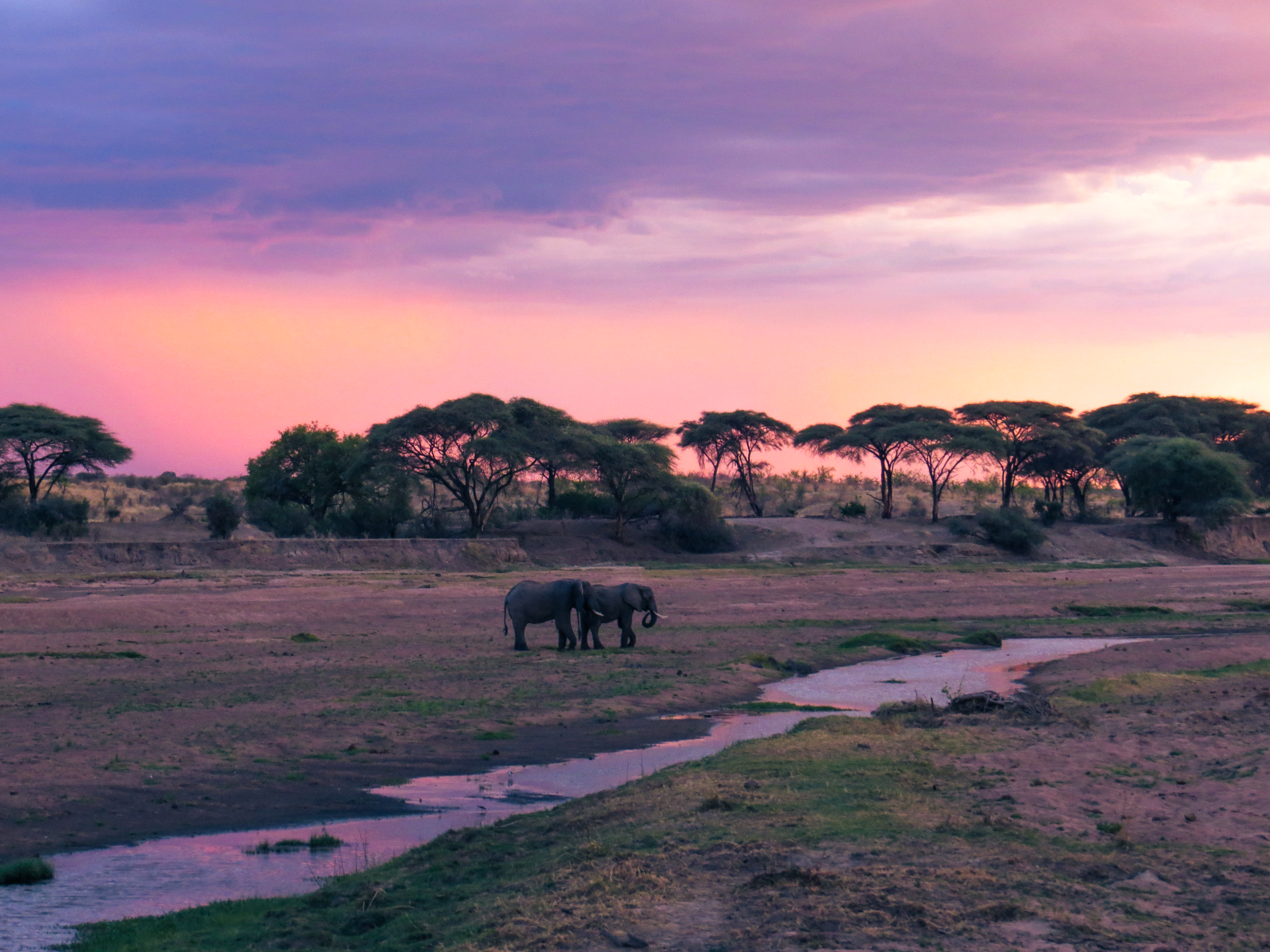 Ruaha NP, TZ